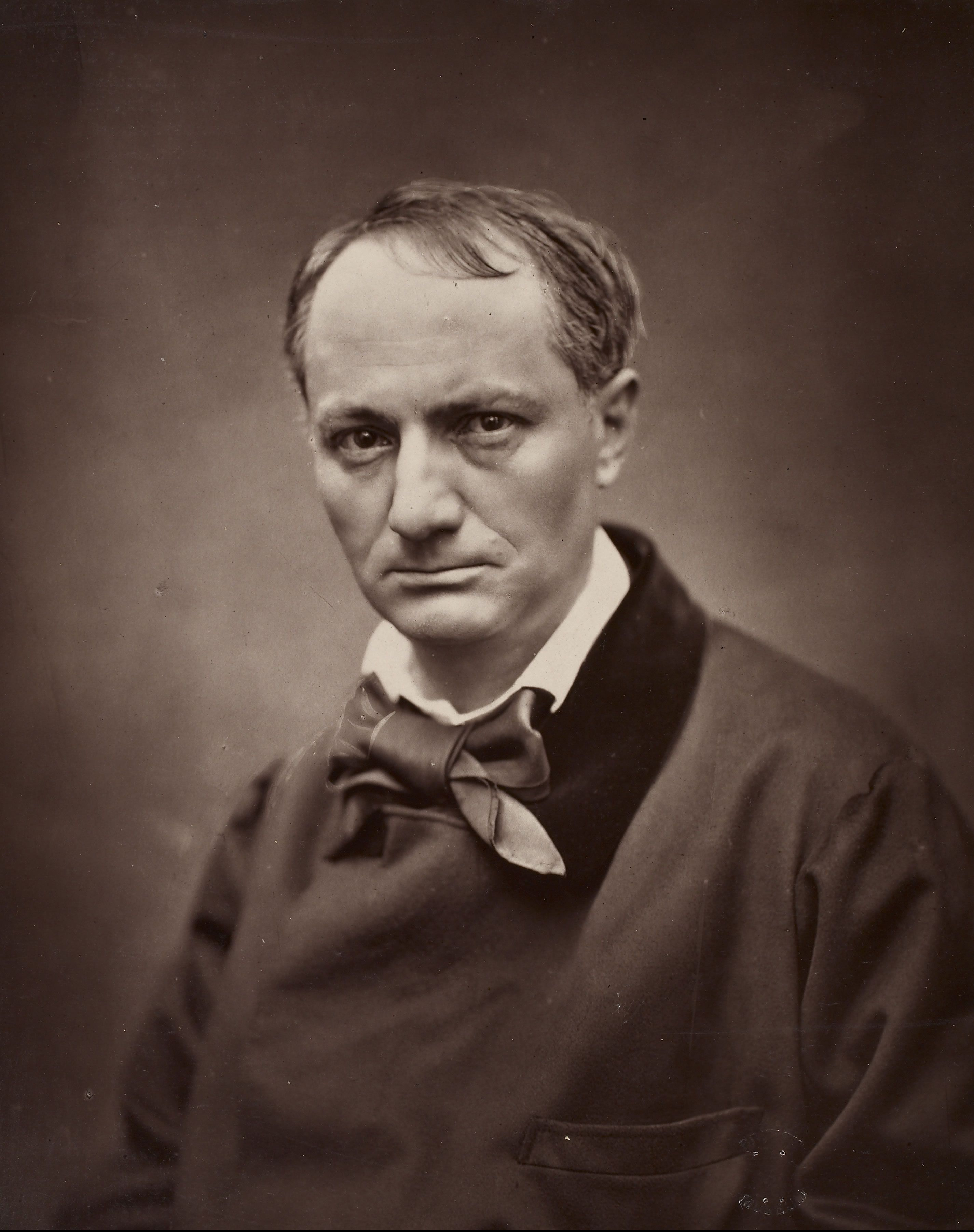 Woodburytype of a potrait of Charles Baudelaire by Étienne Carjat.